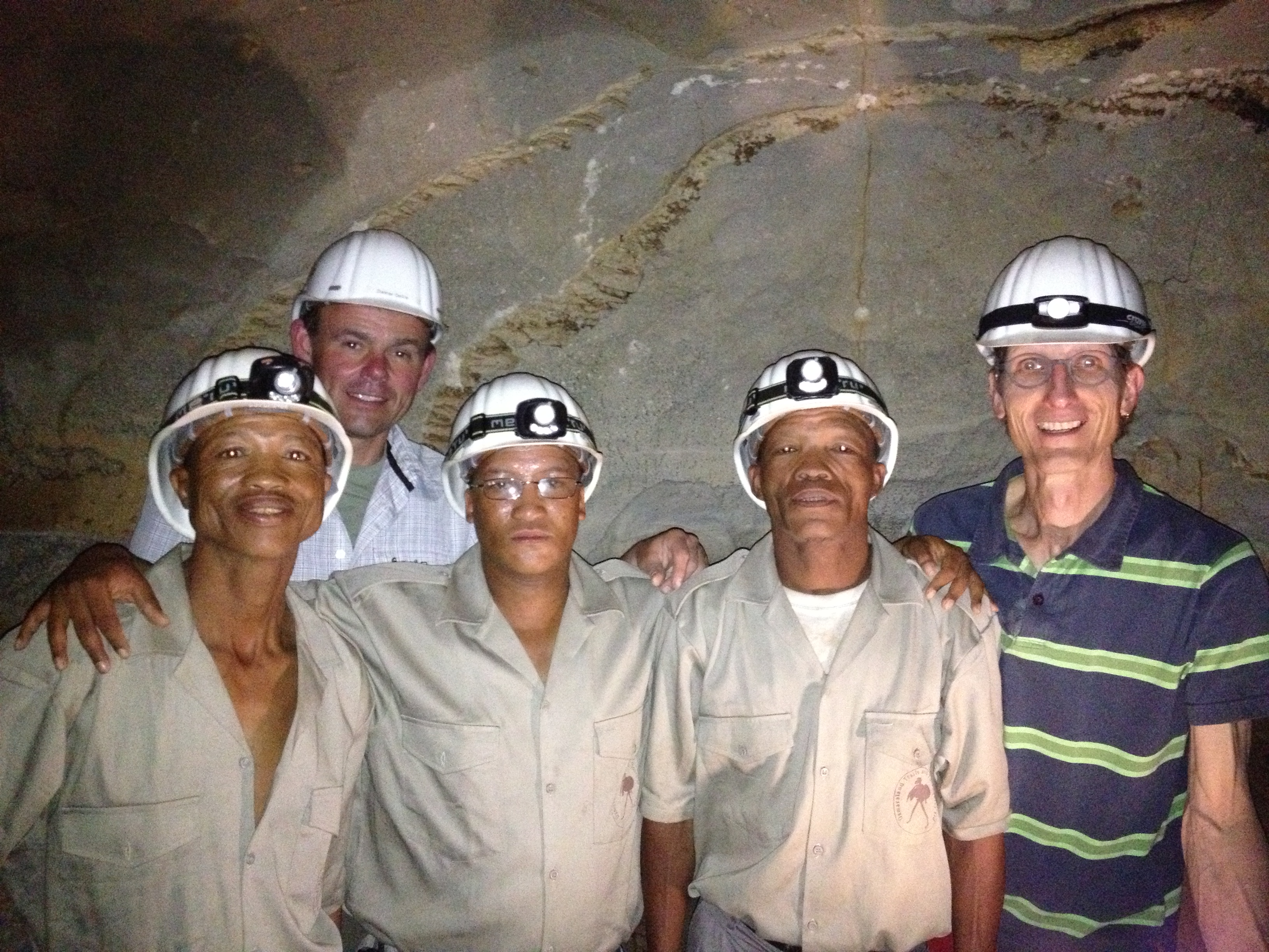 From left: Ui Kxunta, Andreas Pastoors, Tsamkxao Ciqae, Thui Thao, Tilman Lenssen-Erz